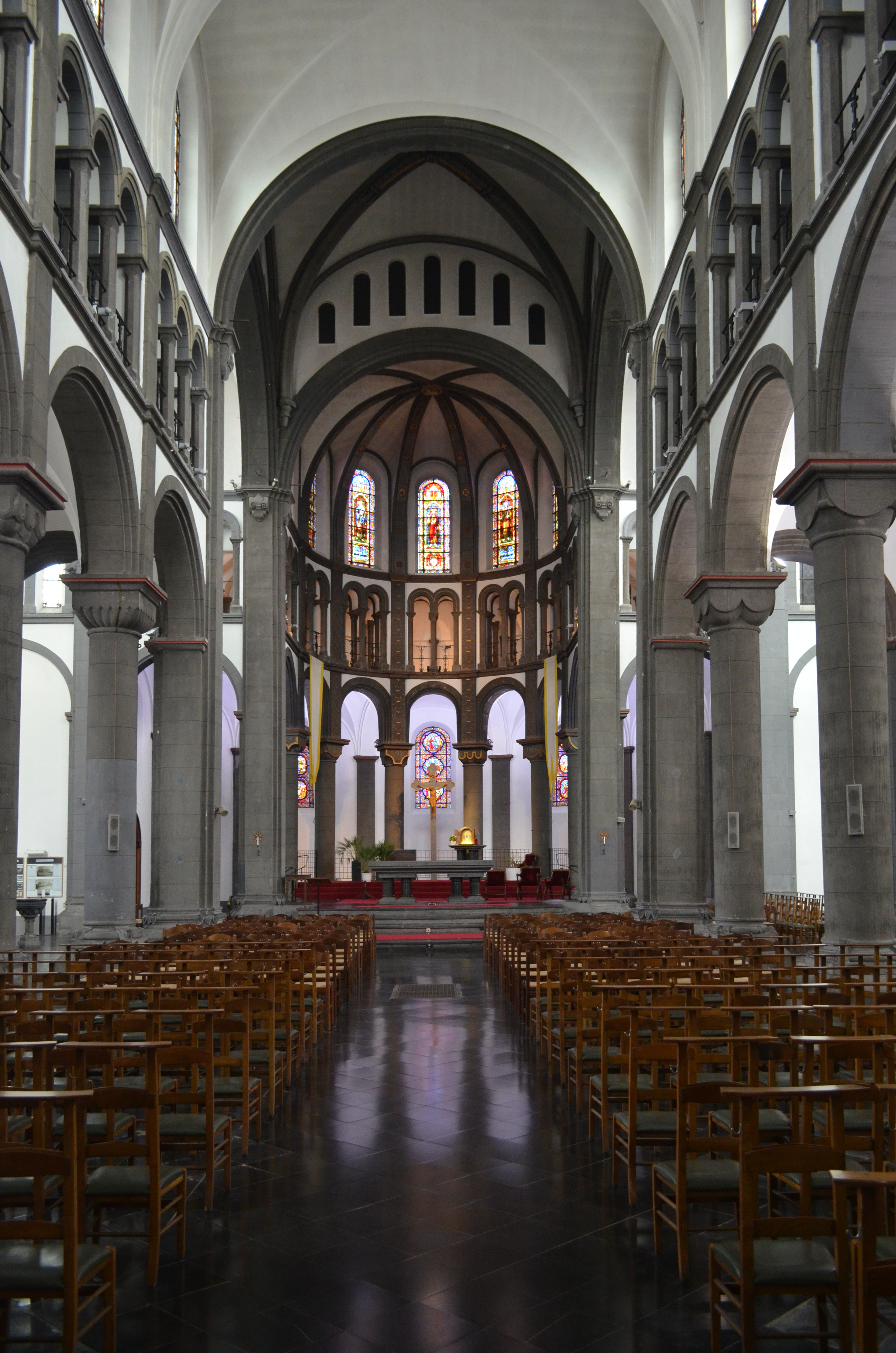 Jumet - Church: Immaculate Conception - Work by architect Justin Bruyenne (1811-1896)